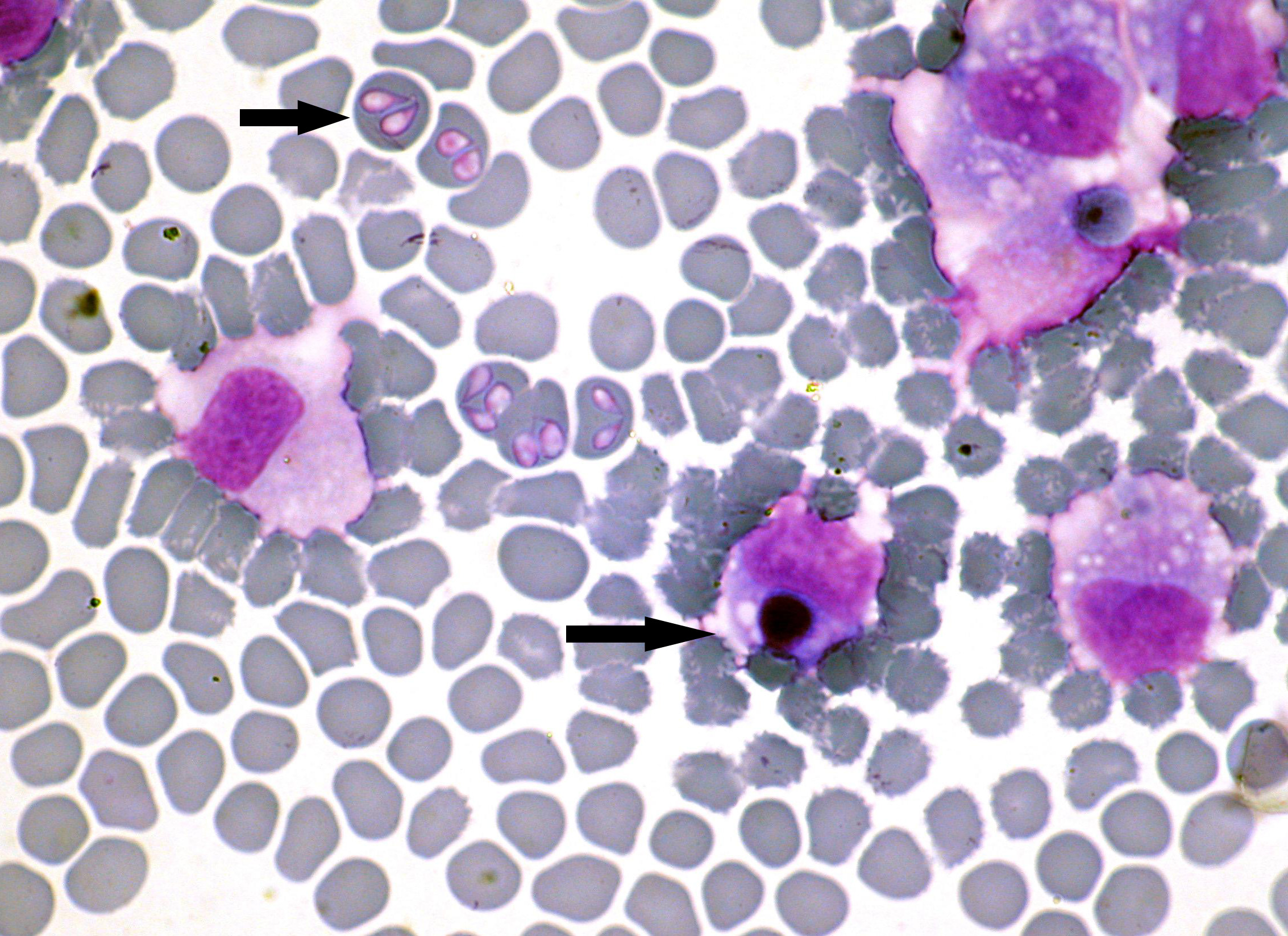 Dual infection of blood of a dog from South Africa with Babesia protozoa in red blood cells, and Ehrlichia bacteria in white blood cells. Both parasites transmitted by Rhipicephalus sanguineus tropical dog tick.